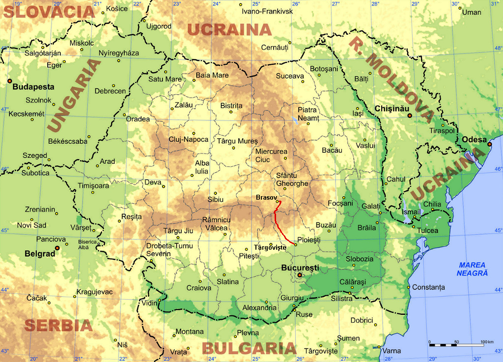 Railway track Ploiesti-Brasov